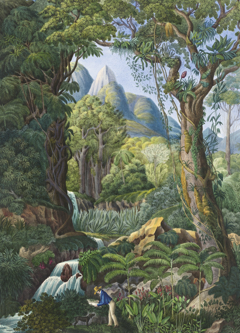 "Morenia Pöppigiana" by Chromolithograph -hand-coloured